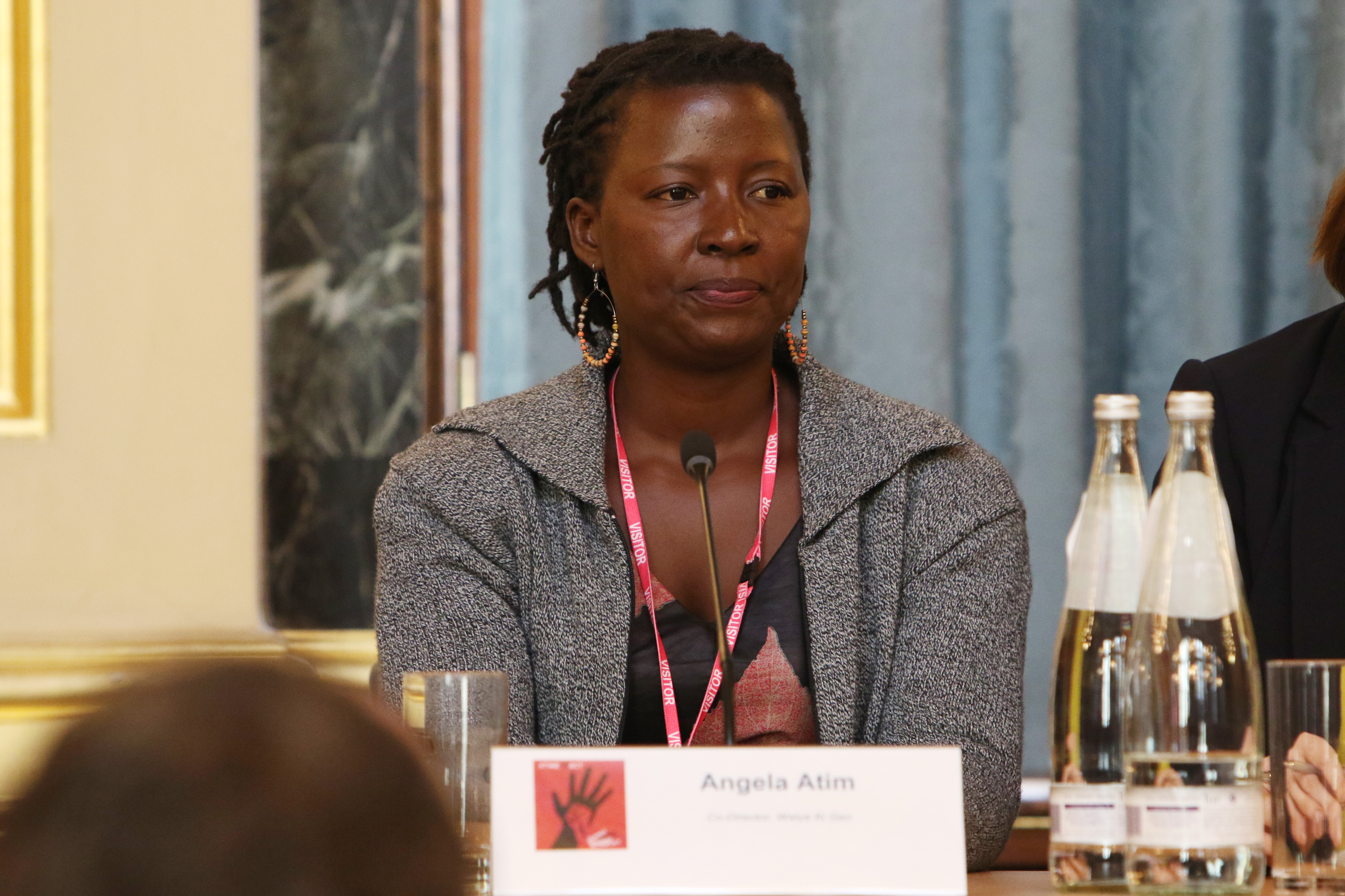 Angela Atim, Co-Director, Watye Ki Gen at the Preventing Sexual Violence Initiative (PSVI) event in London, 13 March 2017. Read more.